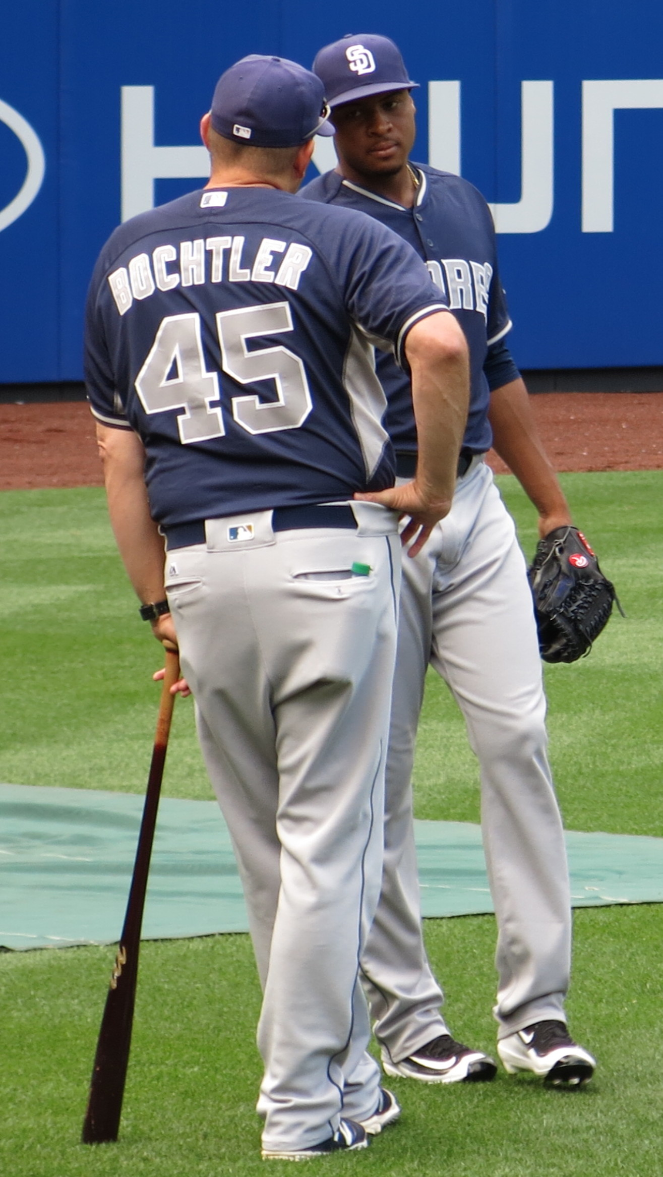 Doug Bochtler, Luis Perdomo and Justin Hatcher of the San Diego Padres, August 12, 2016.